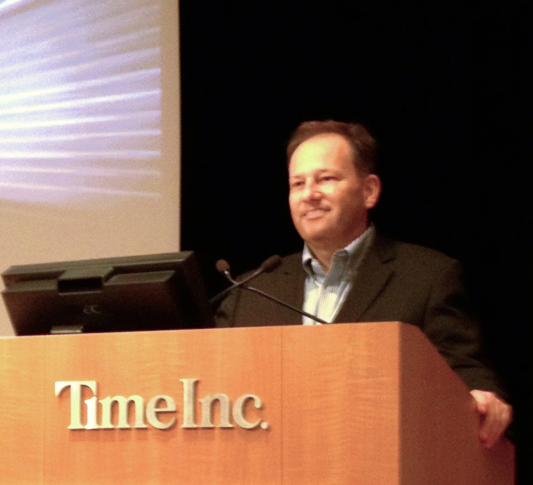 Wendell Brown speaking at TIME headquarters in New York City in 2012